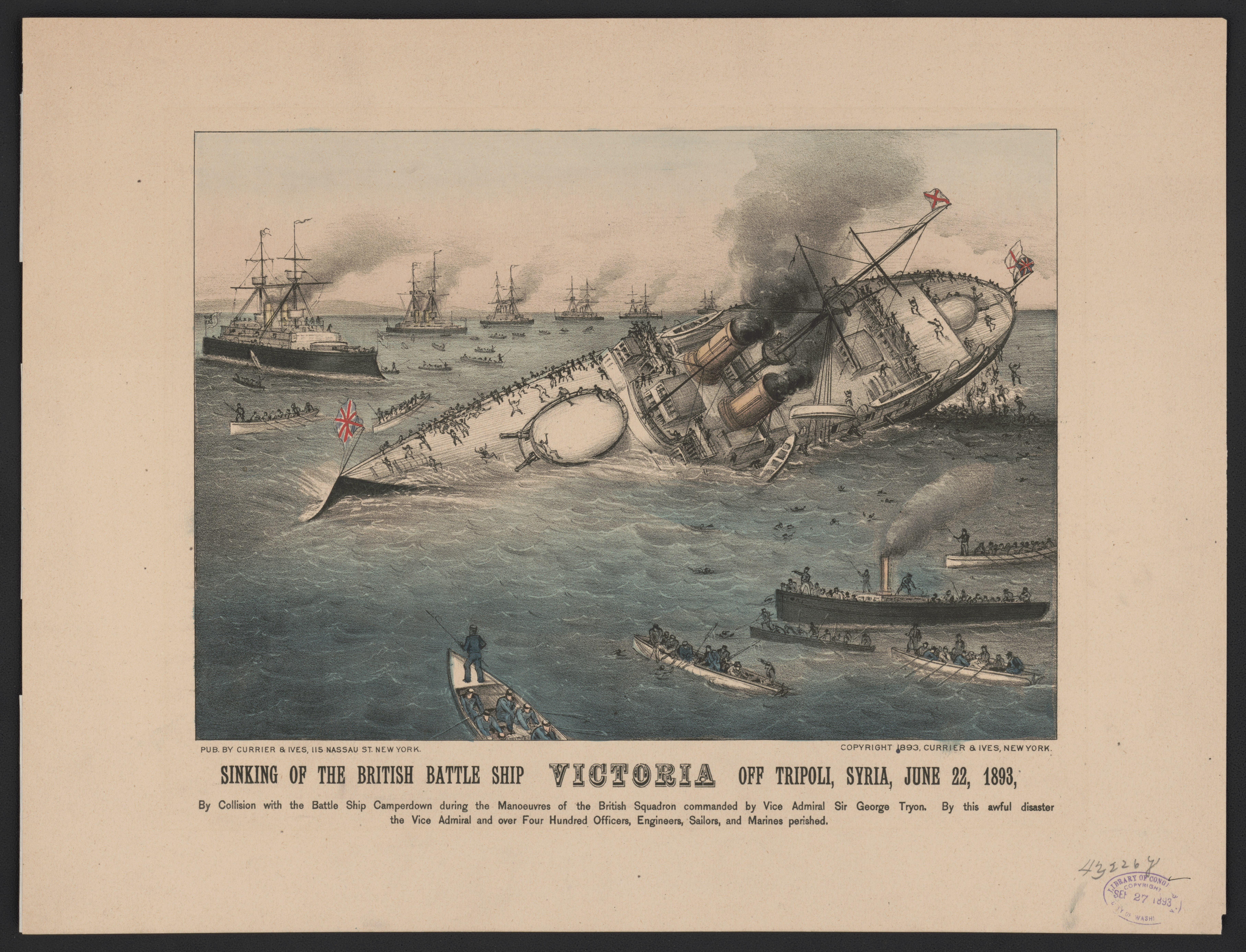 Title: Sinking of the British battle ship Victoria off Tripoli, Syria, June 22, 1893 Physical description: 1 print : lithograph, hand-colored.